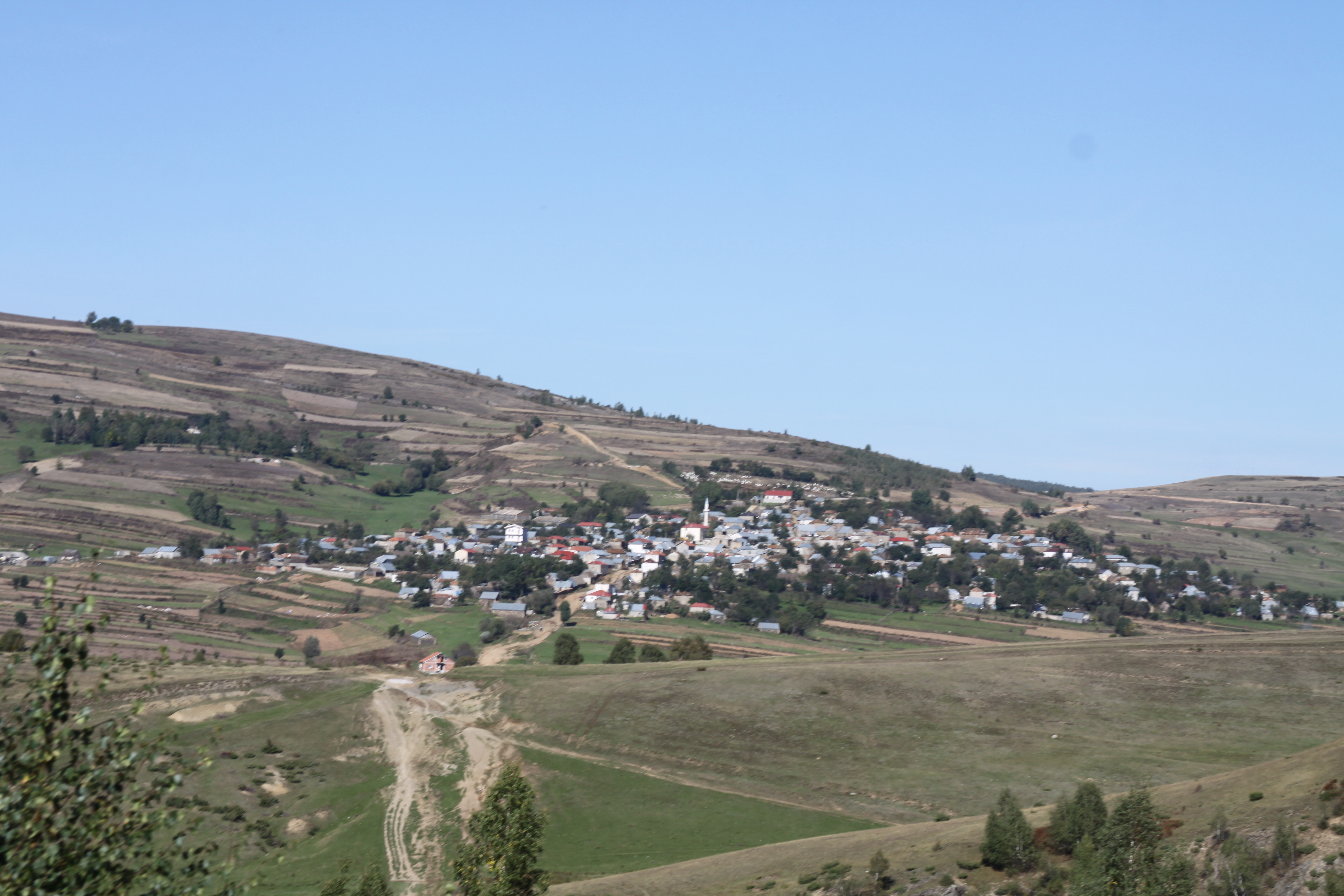 The village of Novosej is one of the villages of the Kukes Region Albanian:Fshati Novosej eshte nje nder fshatrat e Qarkut Kukes